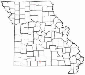 Modified from a map on Wikipedia.